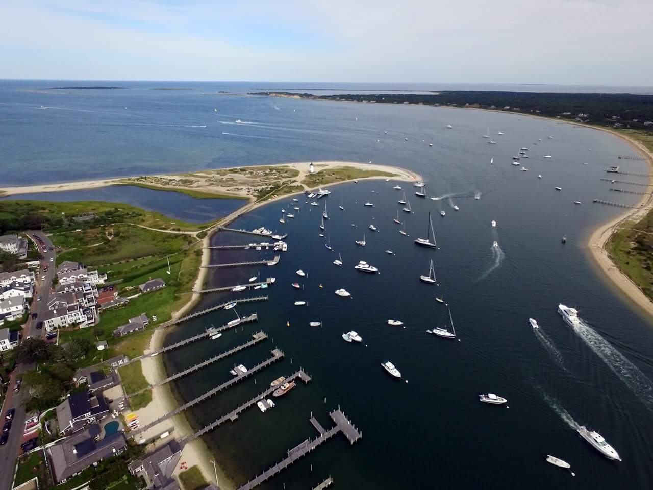 Lighthouse Beach, Edgartown, Marthas Vineyard Island in the Dukes County, Massachusetts by Don Ramey Logan